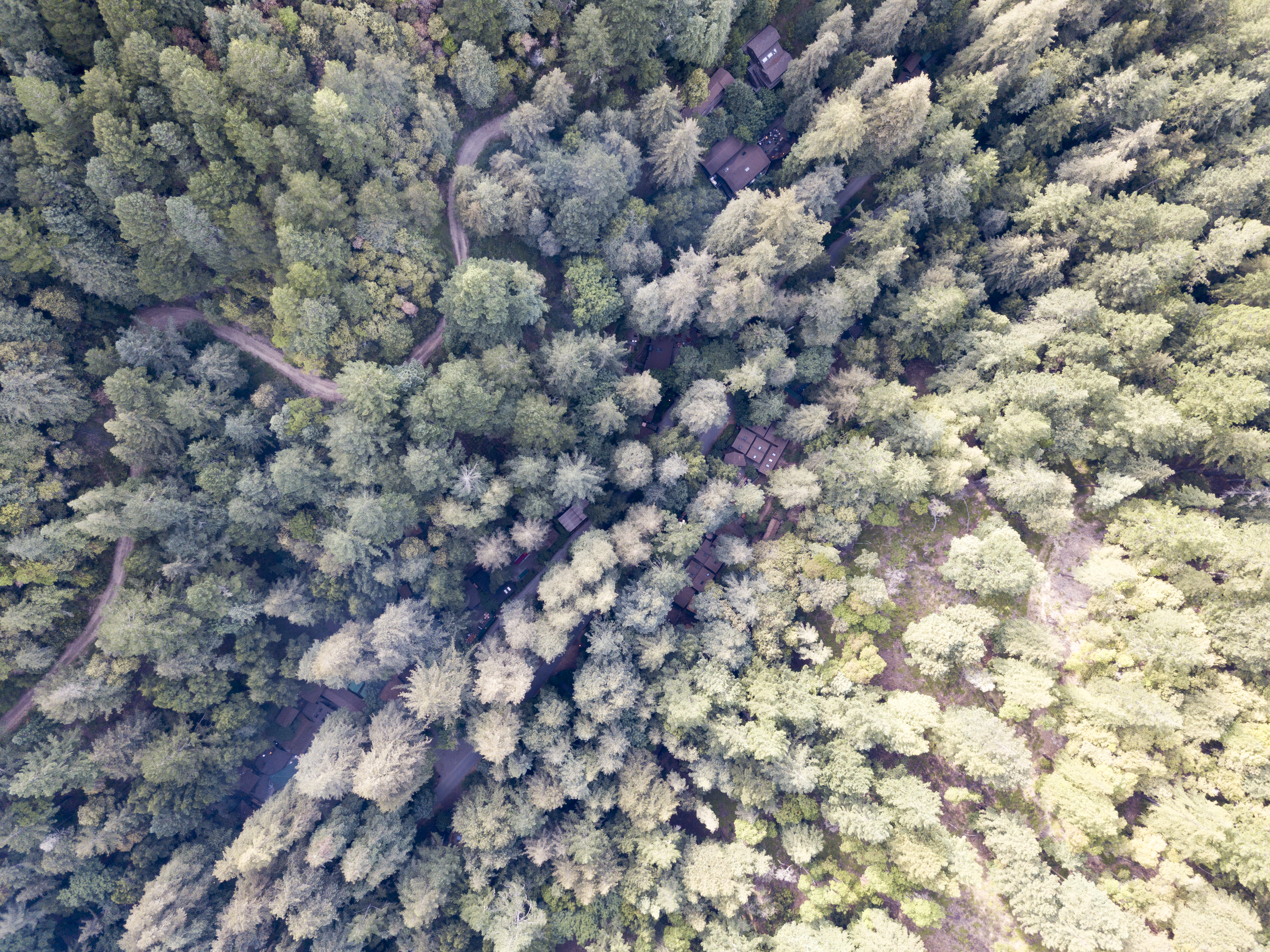 Aerial Image of Bohemian Grove Buildings